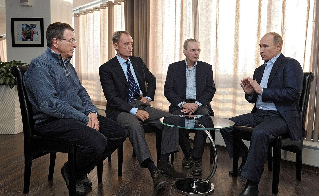 Members of the coordination commission of the IOC on preparation of the Winter Olympic Games in Sochi at a meeting with V. V. Putin one year prior to Olympic Games opening